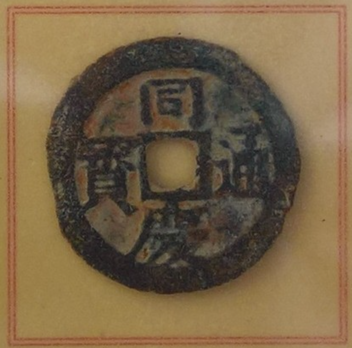 An image of a Đồng Khánh Thông Bảo (同慶通寶) cash coin extracted from File:Nguyễn Dynasty coinage.jpg.